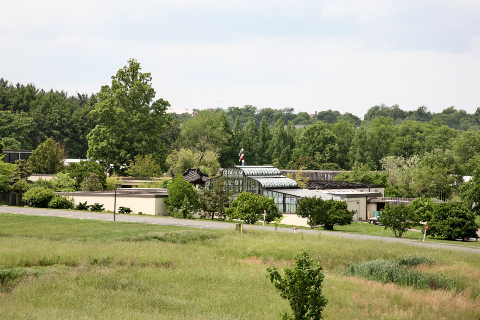 The element of water adds the essence of nature and a soothing dimension to any garden. The diversity of water plants is astounding from the huge floating pads of the Victoria hybrid water lilies to the narrow, grasslike leaves of dwarf cattails. The aquatic garden is also a garden of sound, where the play of droplets from fountains or waterfalls reminds us of the timelessness and sanctity of water. It is a habitat, too, for fish, frogs, and insects.